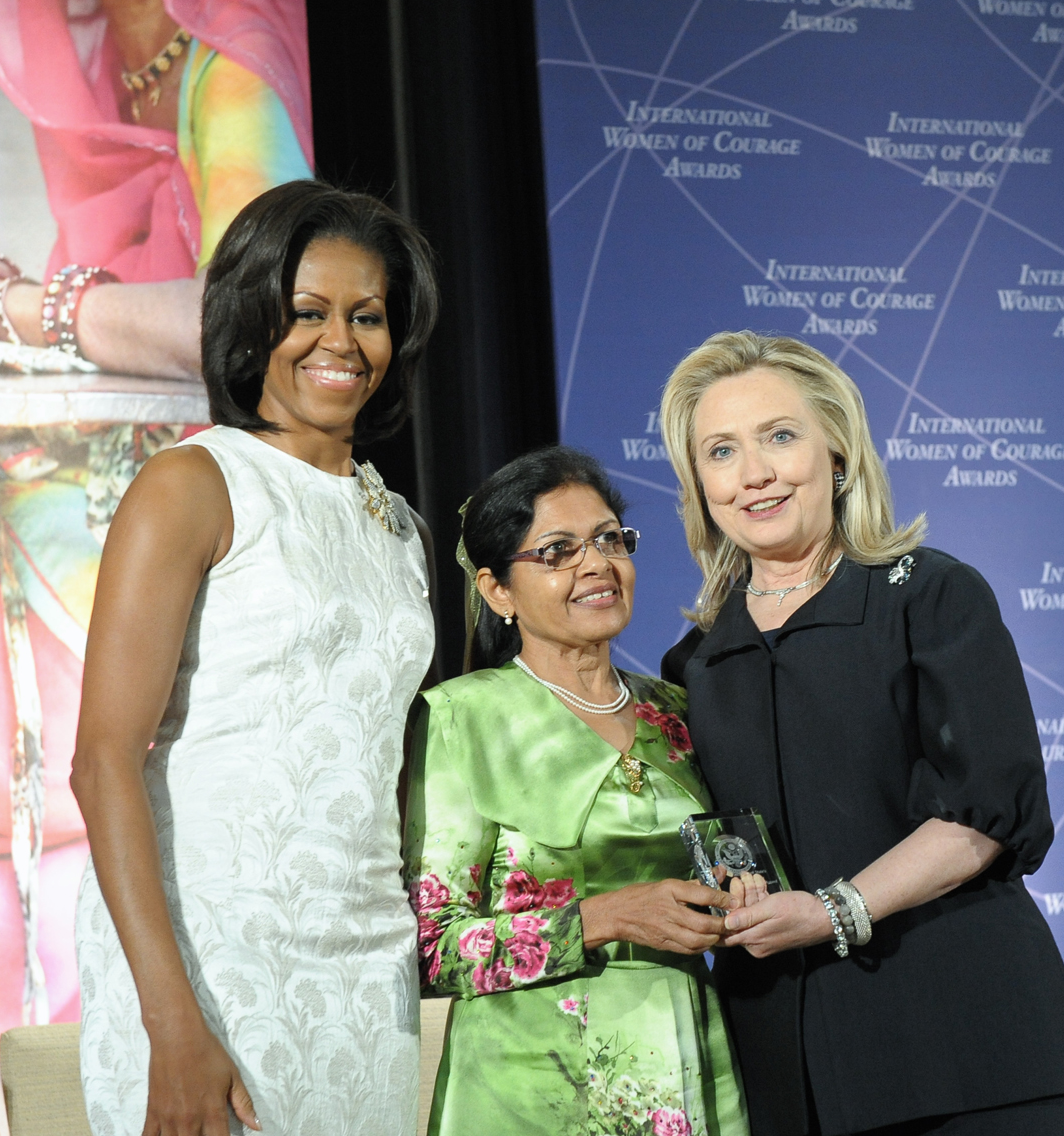 2012 International Women of Courage Awards Ceremony Remarks Hillary Rodham Clinton Secretary of State Melanne Verveer Ambassador-at-Large for Global Women's Issues First Lady Michelle Obama Dean Acheson Auditorium Washington, DC March 8, 2012